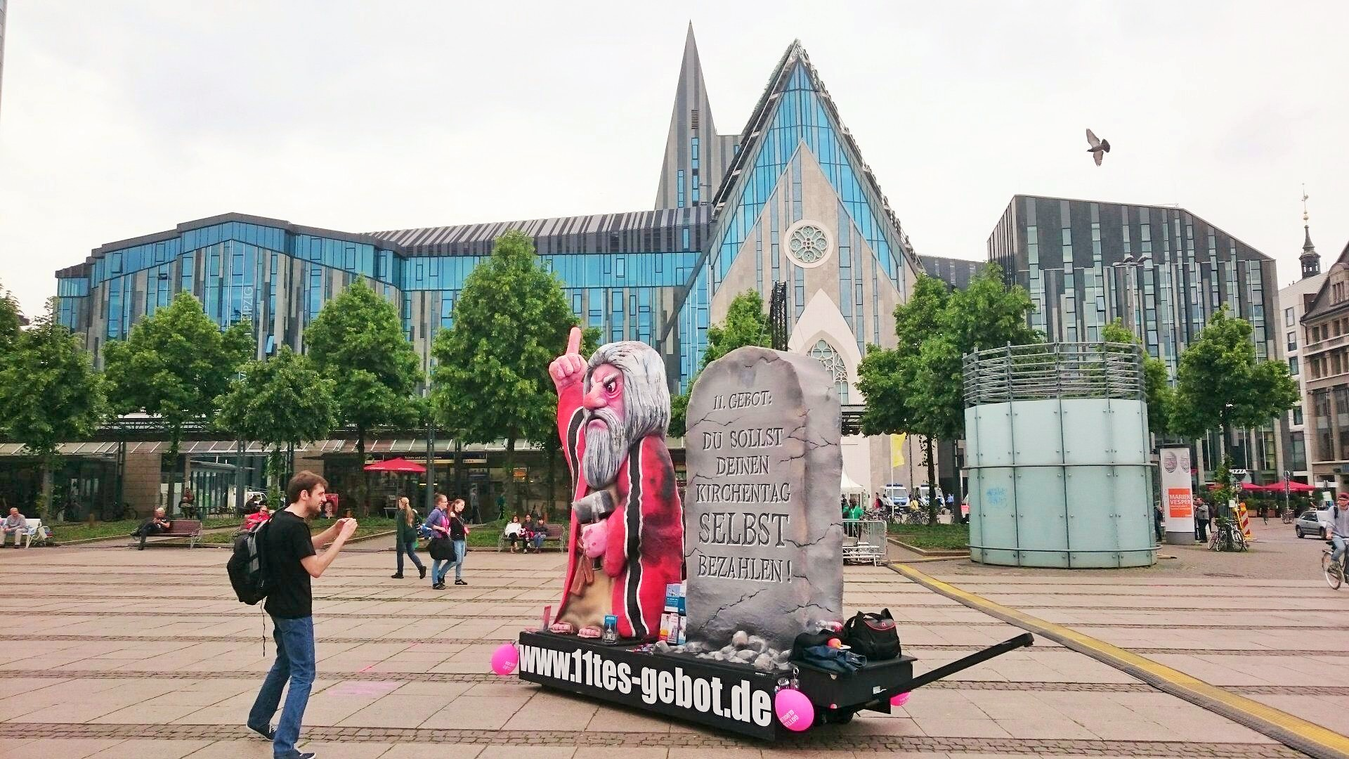 Criticism of churchday finance with "Moses 11. Commandment" sculpture. On the sculpture stands: "Thou shalt pay thy church-day self". On the 100st catholic churchday in Leibzig, Germany 2016